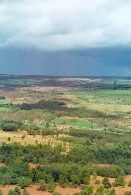 Sleightholmdale Looking down into the valley from the scarp edge. The foreground shows a fascinating area of deciduous woodland which appears to be natural and unmanaged.